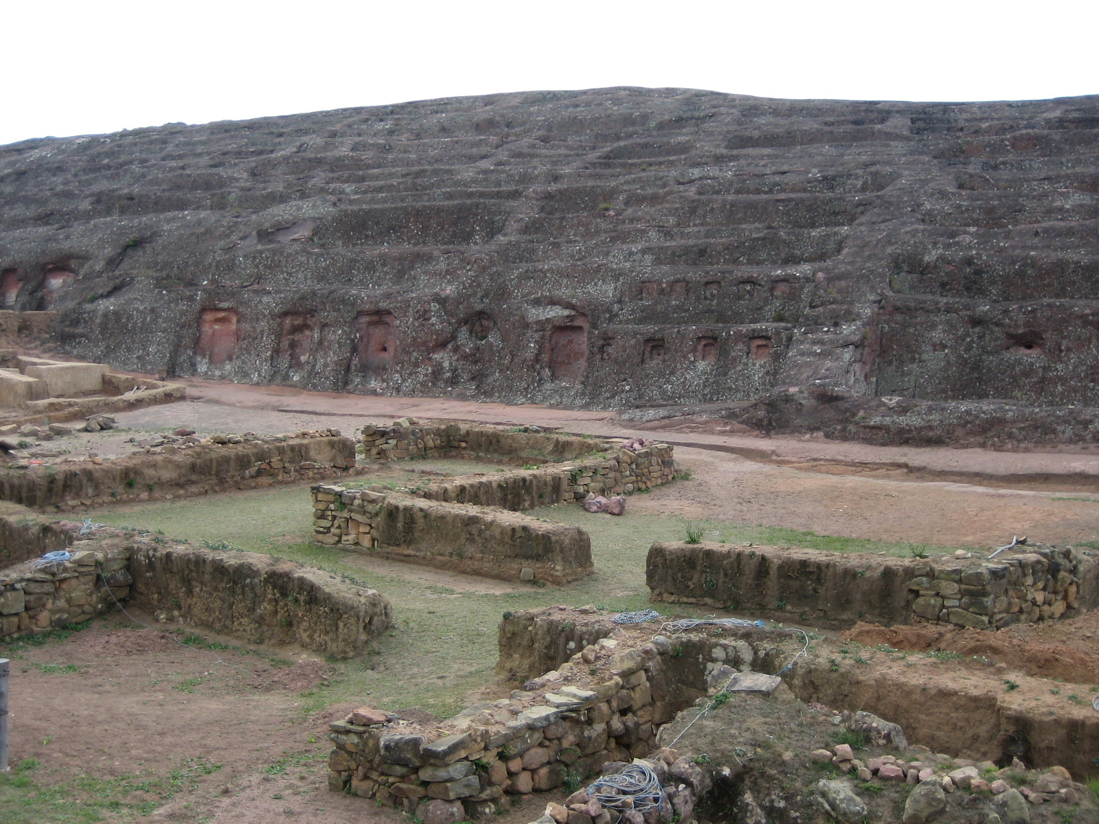 Description=El Fuerte, sitio pre-columbian cerca de Samaipata, Bolivia Source=own work Date=2006-8-10 Author=Franz Barjak Permission=own work, public domain